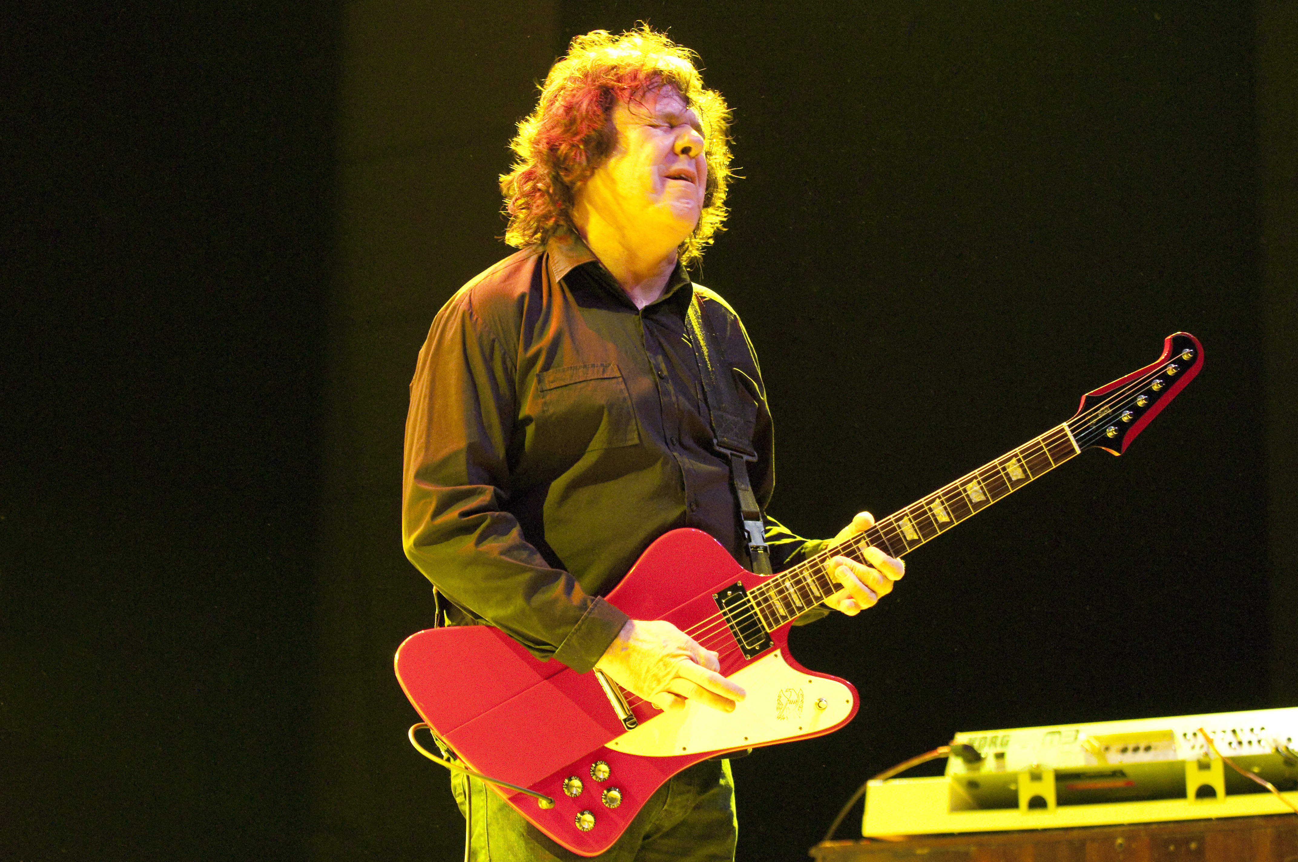 Gary Moore